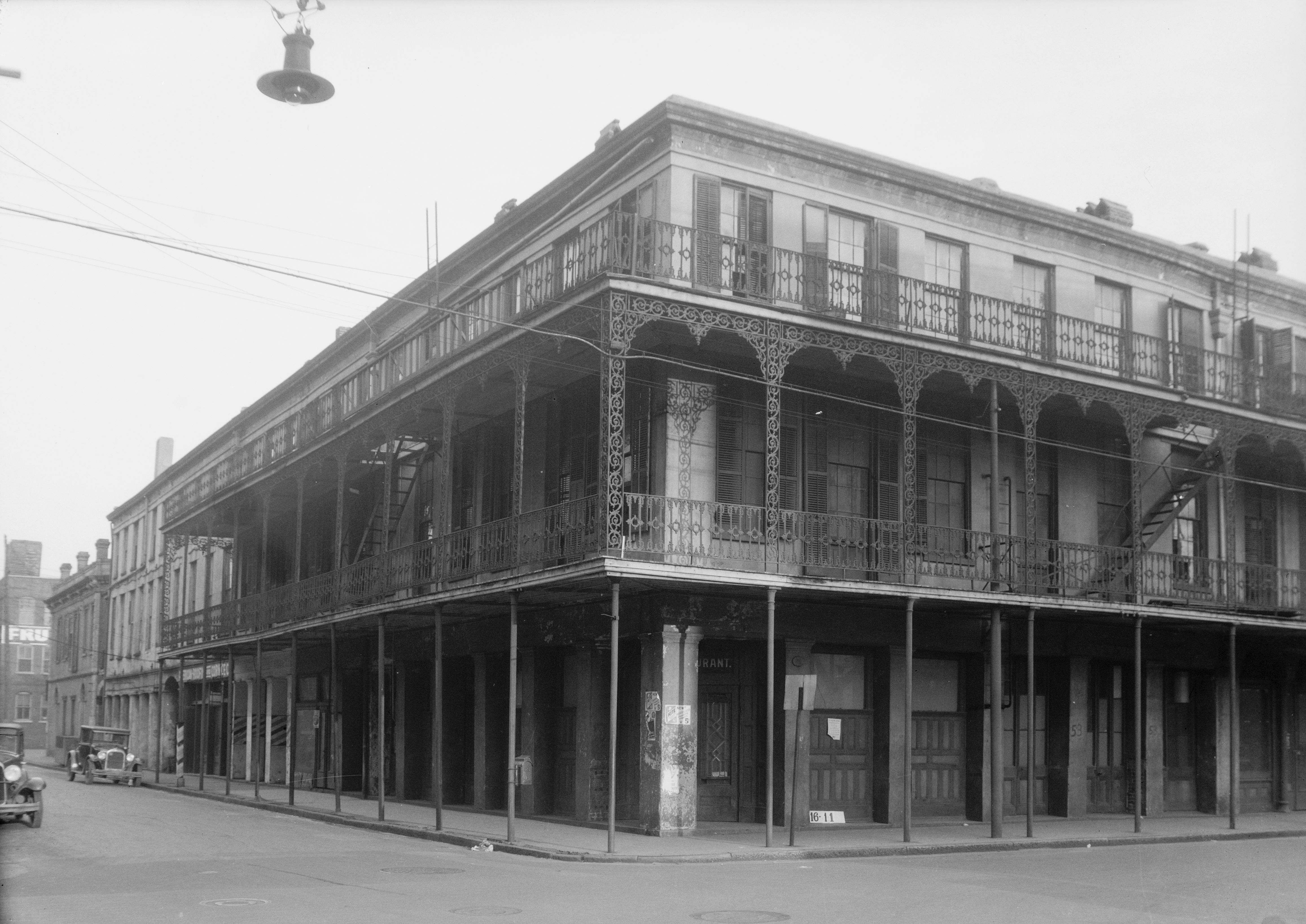 Southern Hotel (Gulf City Hotel), 53-65 Water Street, Mobile, Mobile County, AL. (Built in 1837, it was demolished a few months after this photo was taken.)